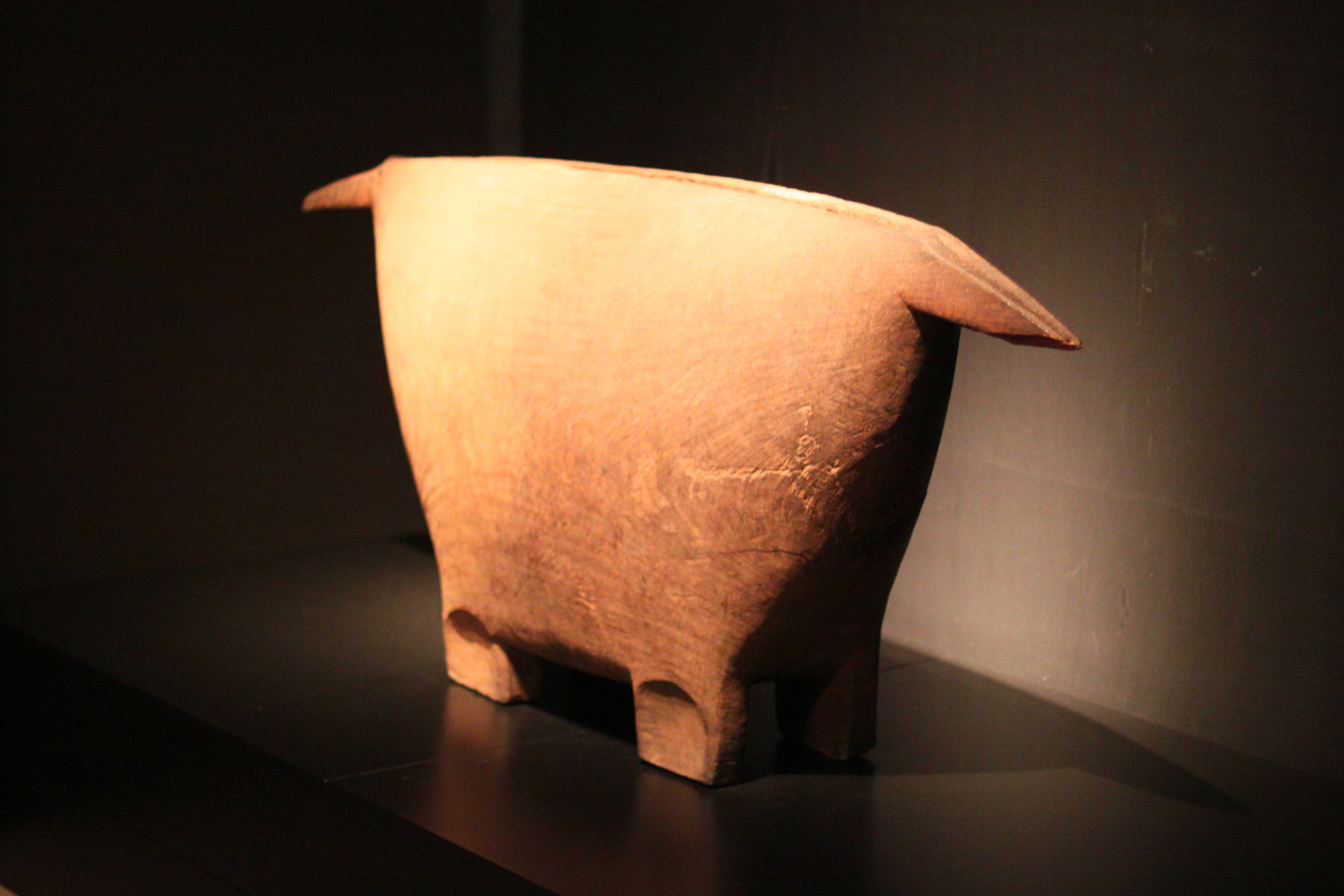 Log drum, Cameroon, 20th century; wood; African department, Ethnological Museum, Berlin, Inv. No. III C 31494 (Hartmann collection, acquired in 1918)